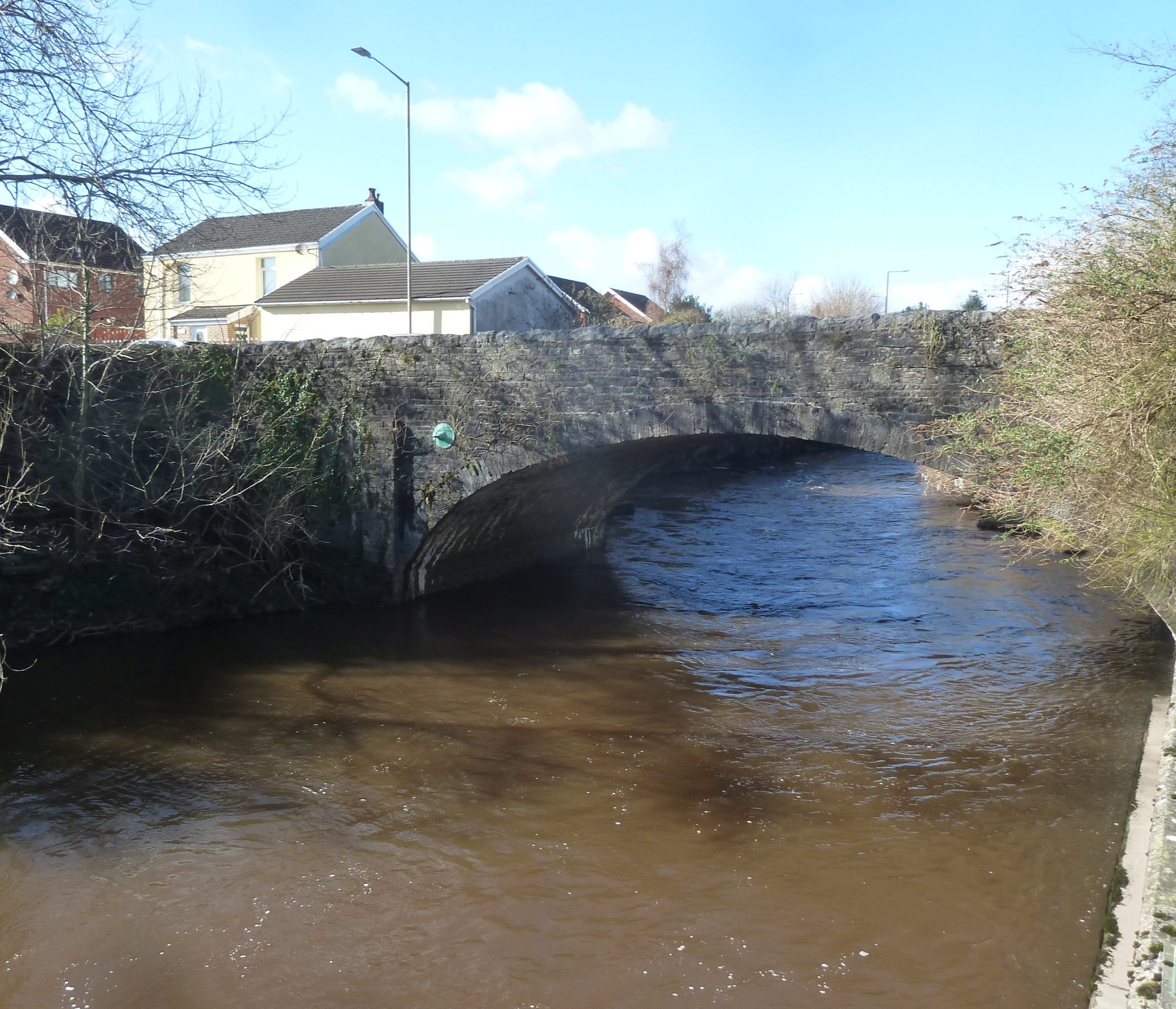 Jackson's Bridge, the oldest remaining bridge in Merthyr Tydfil